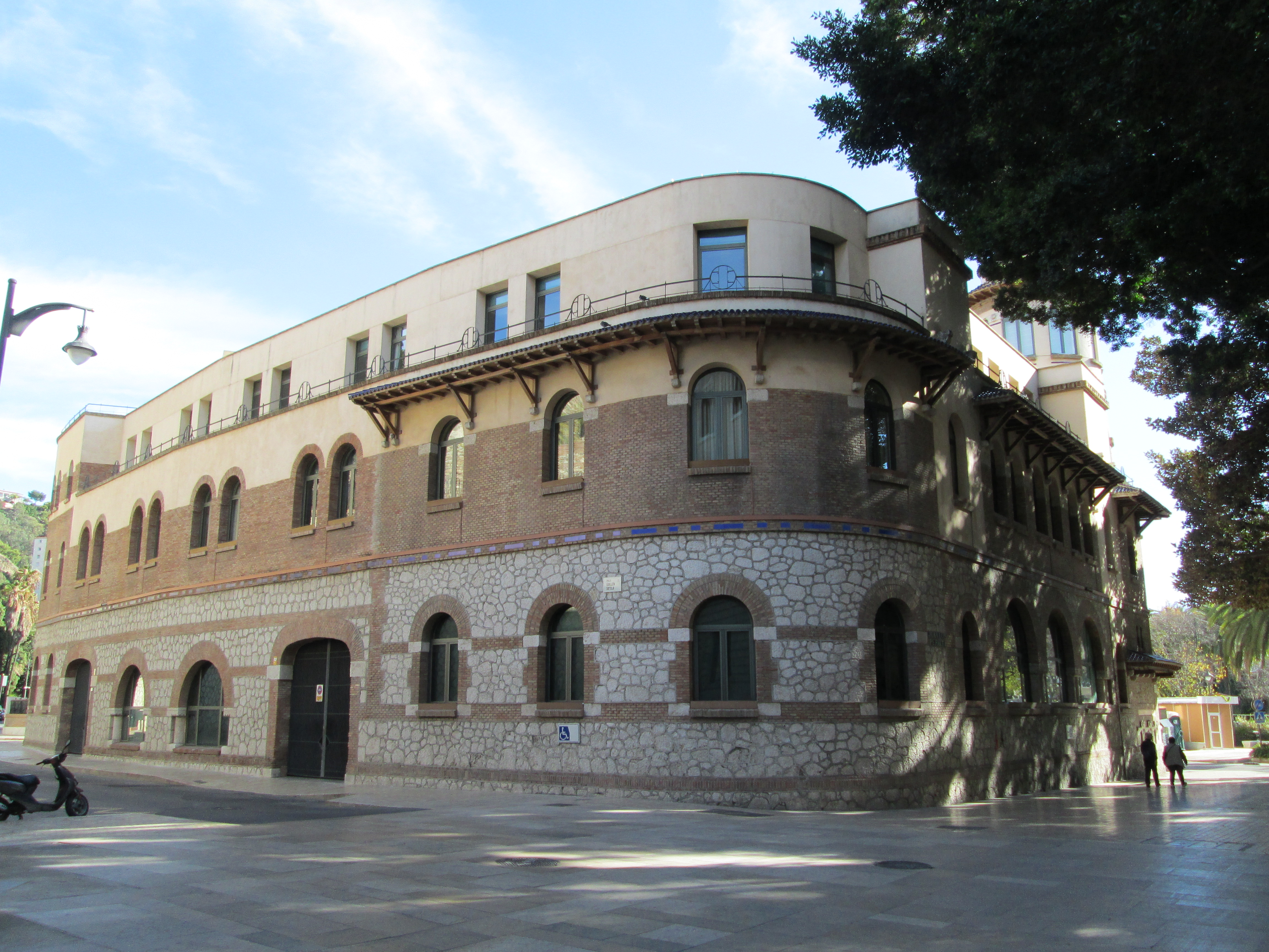 Rectorado de la Universidad de Málaga